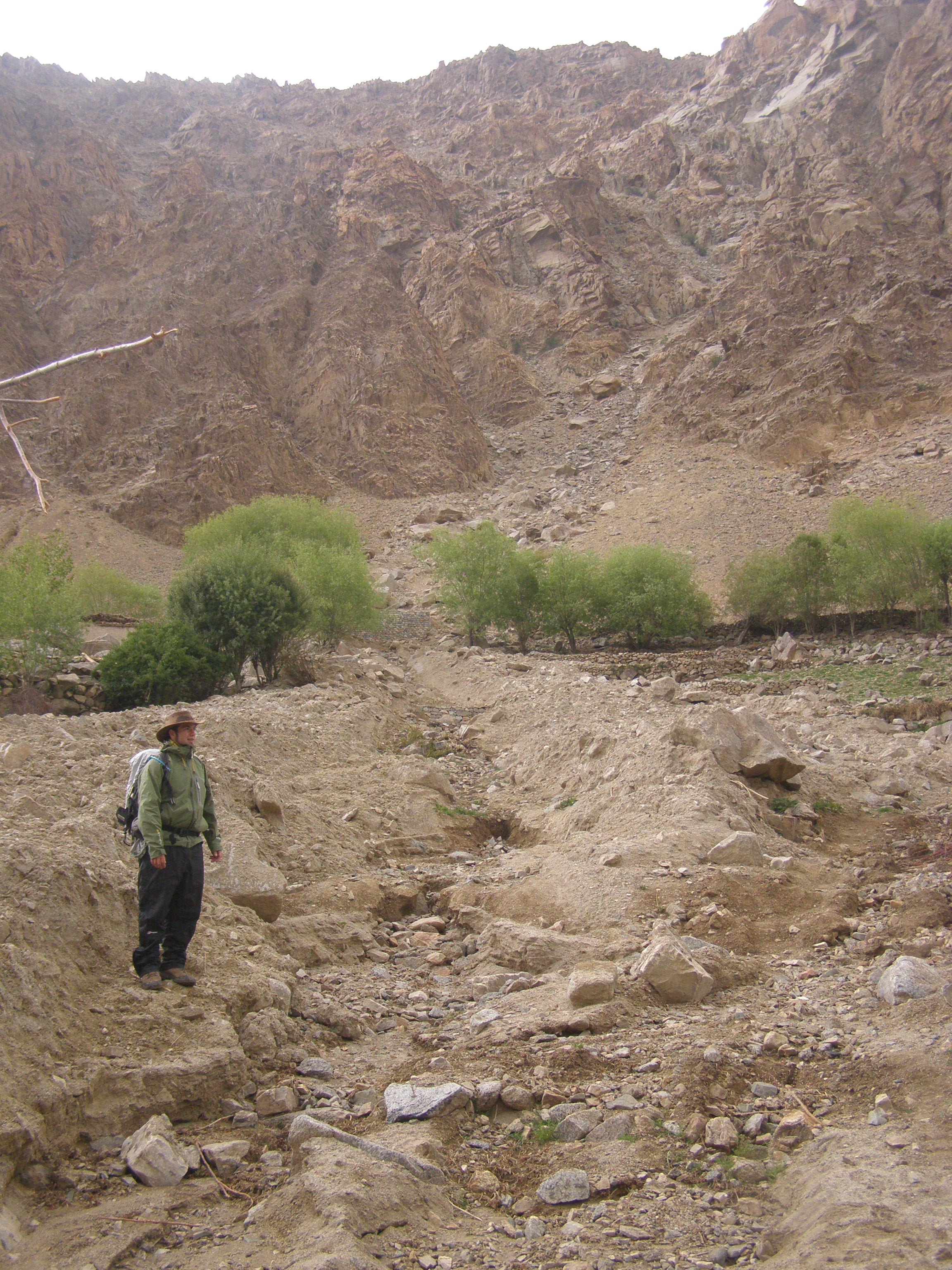 Debris flow channel in Ladakh, NW Indian Himalaya, produced in the storms of August 2010. Note coarse, bouldery levees on both sides of the channel, high abundance of mud, and poorly sorted sediments.